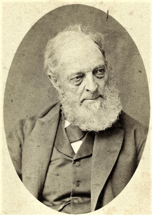 A photograph of the Norfolk artist Obadiah Short, from a notebook containing manuscript notes and pencil sketches